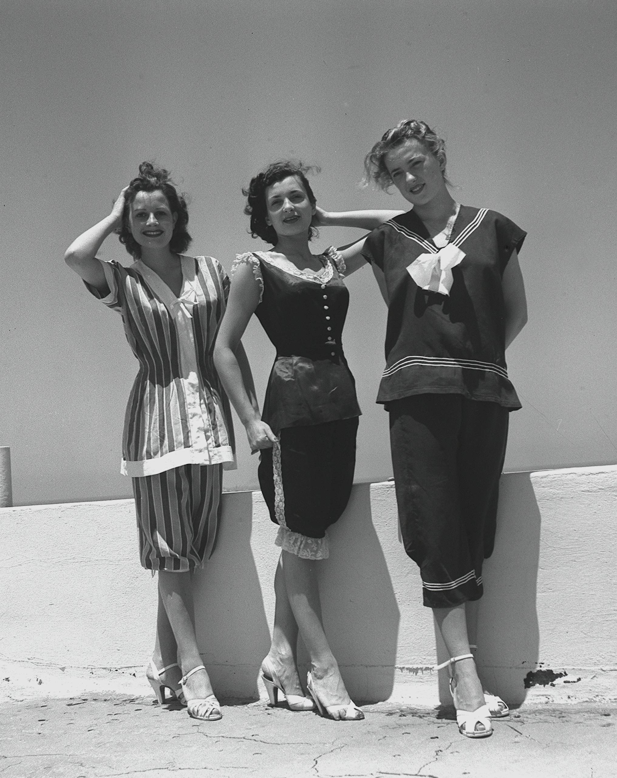 Beauty queens model the early 50's fashion in Tel Aviv.